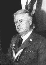 Chief Scout Executive James E. West at the White House on February 8, 1937.